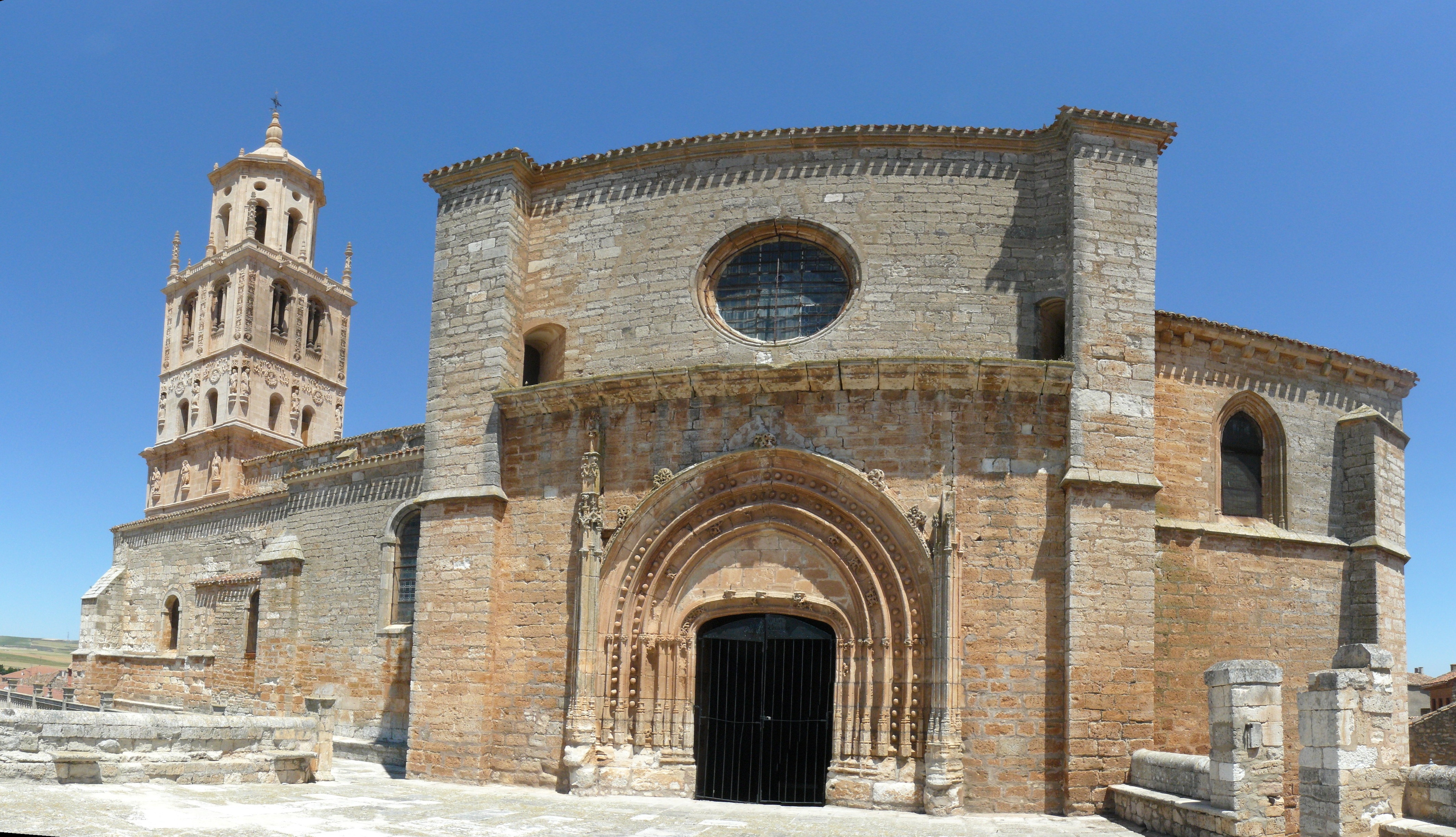 Southern view of the Church of Santa María del Campo, Burgos (Spain).